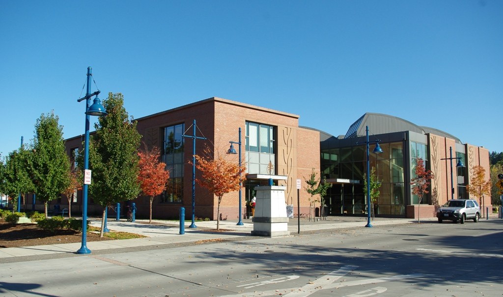 Downtown Sherwood, Oregon, USA, library